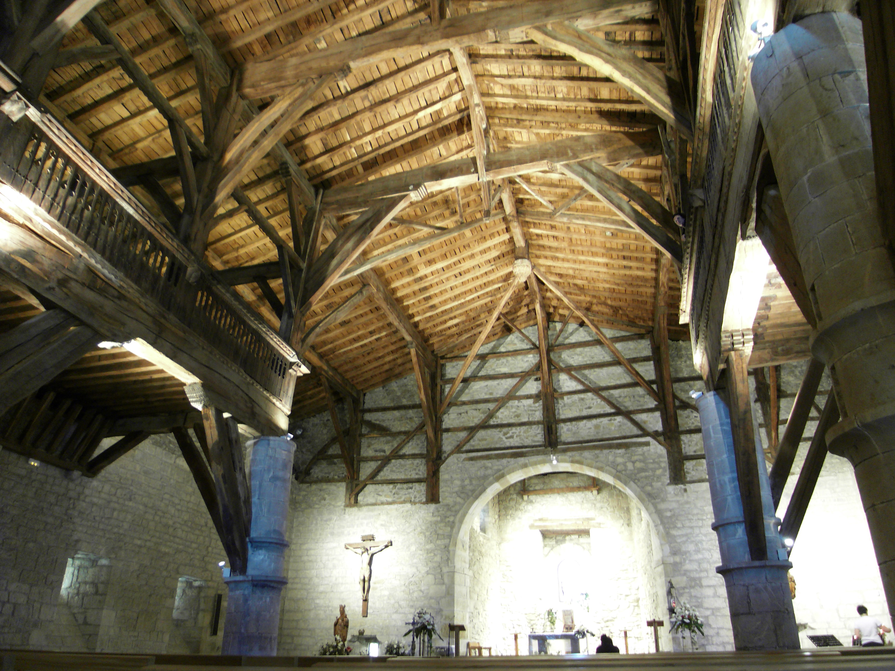 Antio church interior, wooden structure and absis, Zumarraga (Guipuscoa, Basque Country)